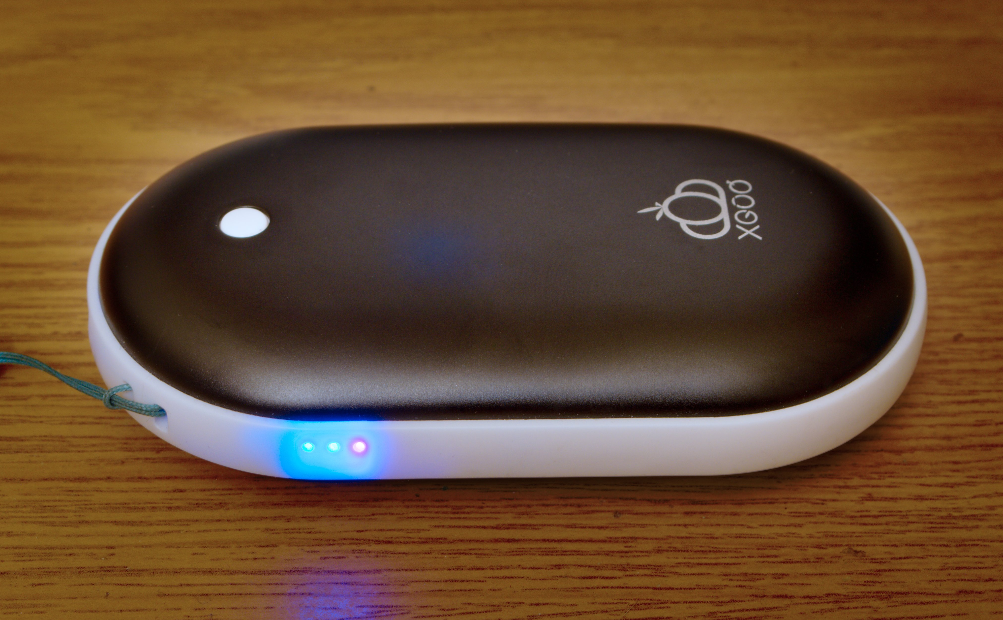 An electric USB-charged hand warmer.